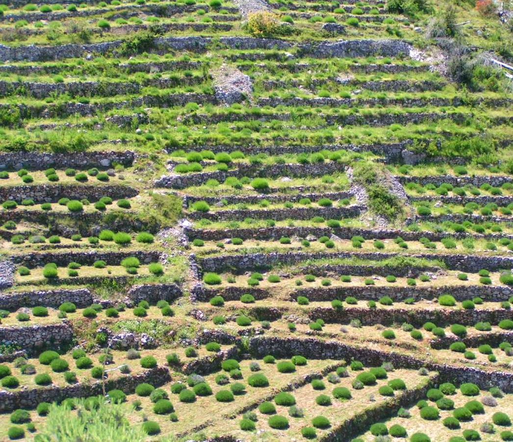 Lavender - Hvar island.